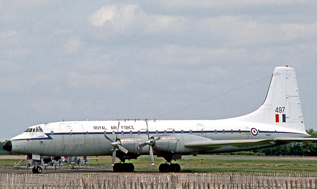 Bristol 175 Britannia C.1 XM497 of 99 & 511 Squadrons Royal Air Force at Stansted Airport in 1976